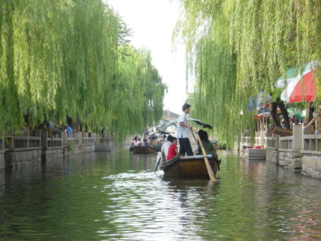 Zhouzhuang China